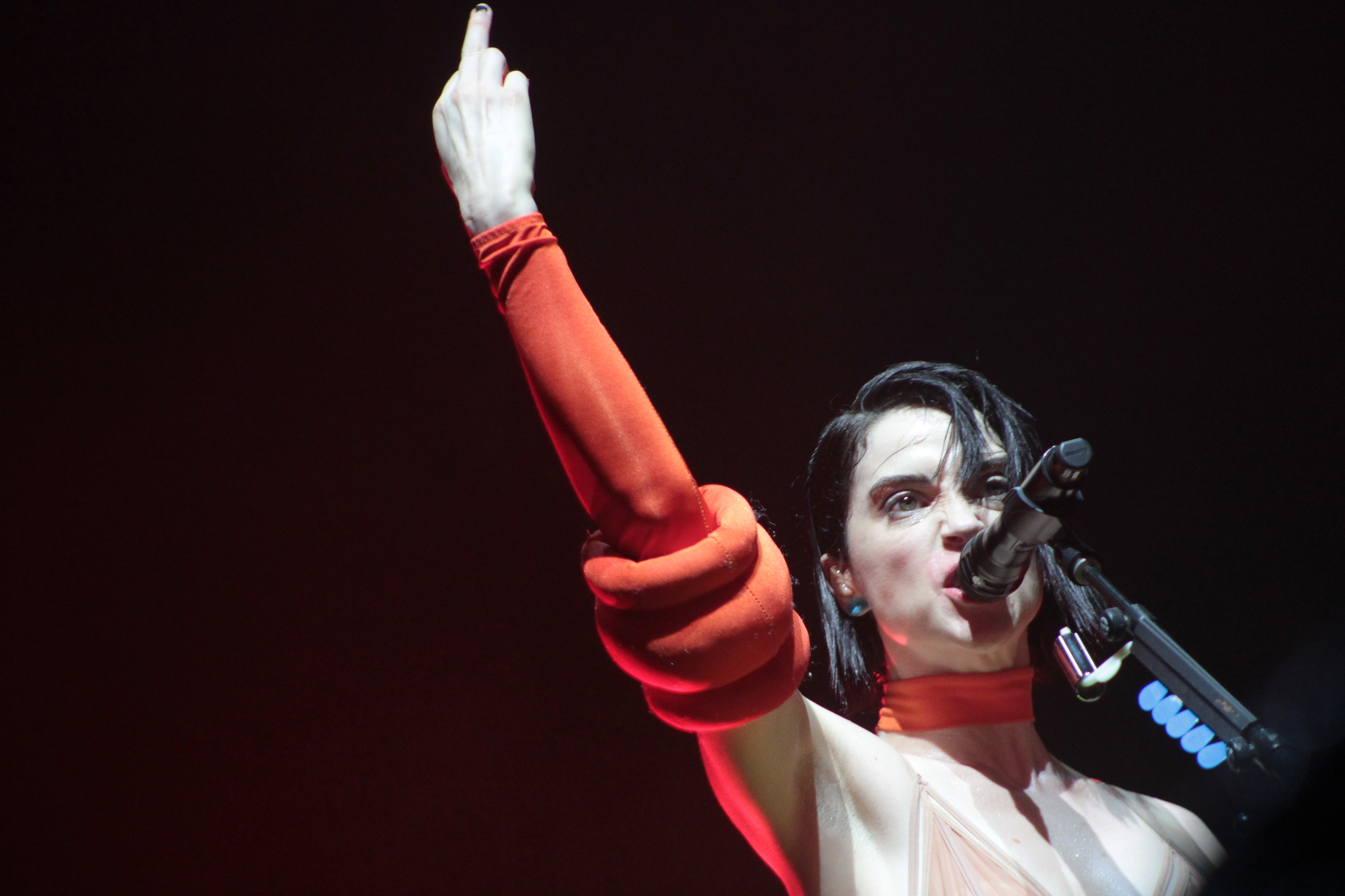 St. Vincent playing at Live Out Festival in Monterrey (2018)